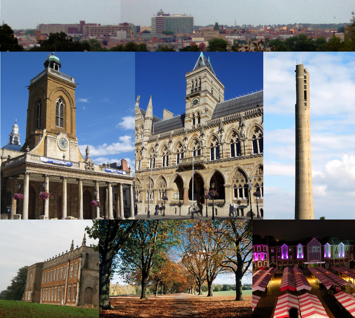 Montage of Northampton landmarks. Skyline of Northampton seen from Delapre Park All Saints' Church Northampton Guildhall Delapré Abbey Abington Park Market Square